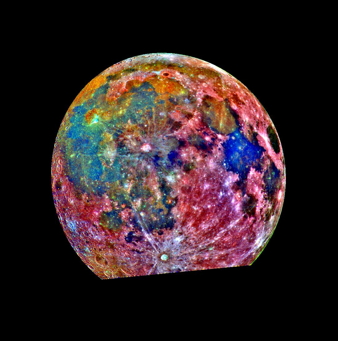 Original Caption Released with Image: This false-color photograph is a composite of 15 images of the Moon taken through three color filters by Galileo's solid-state imaging system during the spacecraft's passage through the Earth-Moon system on December 8, 1992. When this view was obtained, the spacecraft was 425,000 kilometers (262,000 miles) from the Moon and 69,000 kilometers (43,000 miles) from Earth. The false-color processing used to create this lunar image is helpful for interpreting the surface soil composition. Areas appearing red generally correspond to the lunar highlands, while blue to orange shades indicate the ancient volcanic lava flow of a mare, or lunar sea. Bluer mare areas contain more titanium than do the orange regions. Mare Tranquillitatis, seen as a deep blue patch on the right, is richer in titanium than Mare Serenitatis, a slightly smaller circular area immediately adjacent to the upper left of Mare Tranquillitatis. Blue and orange areas covering much of the left side of the Moon in this view represent many separate lava flows in Oceanus Procellarum. The small purple areas found near the center are pyroclastic deposits formed by explosive volcanic eruptions. The fresh crater Tycho, with a diameter of 85 kilometers (53 miles), is prominent at the bottom of the photograph, where part of the Moon's disk is missing.